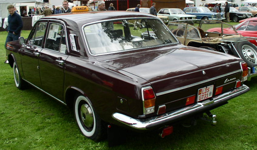 Wolga GAZ 24 Taxi